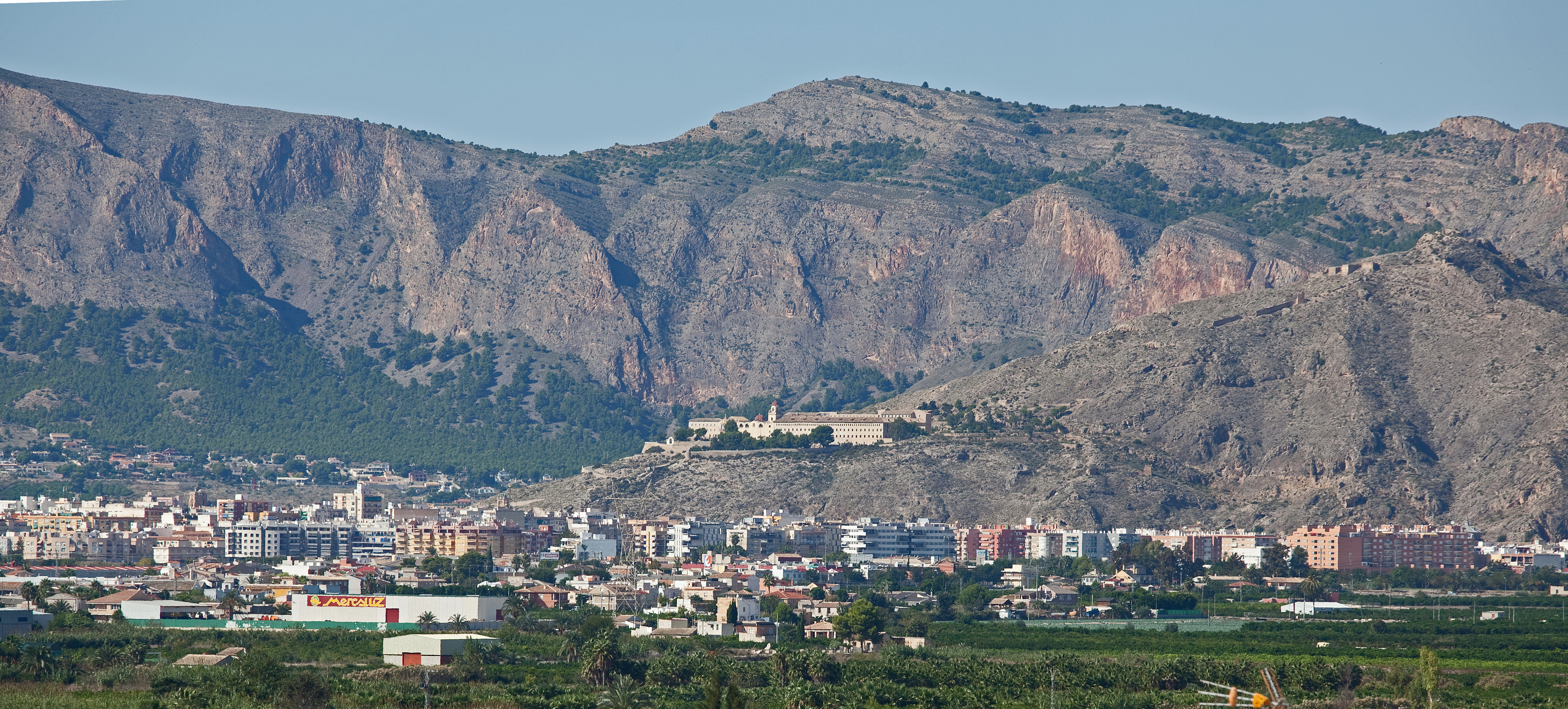 View of Orihuela, Spain.